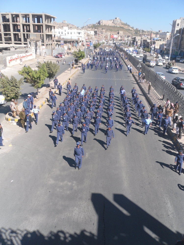 Yemeni air force soldiers in a protest demonstration in the Sixty-Street in sanaa to demand the dismissal the leader of air force Mohammed Saleh al Ah­mar